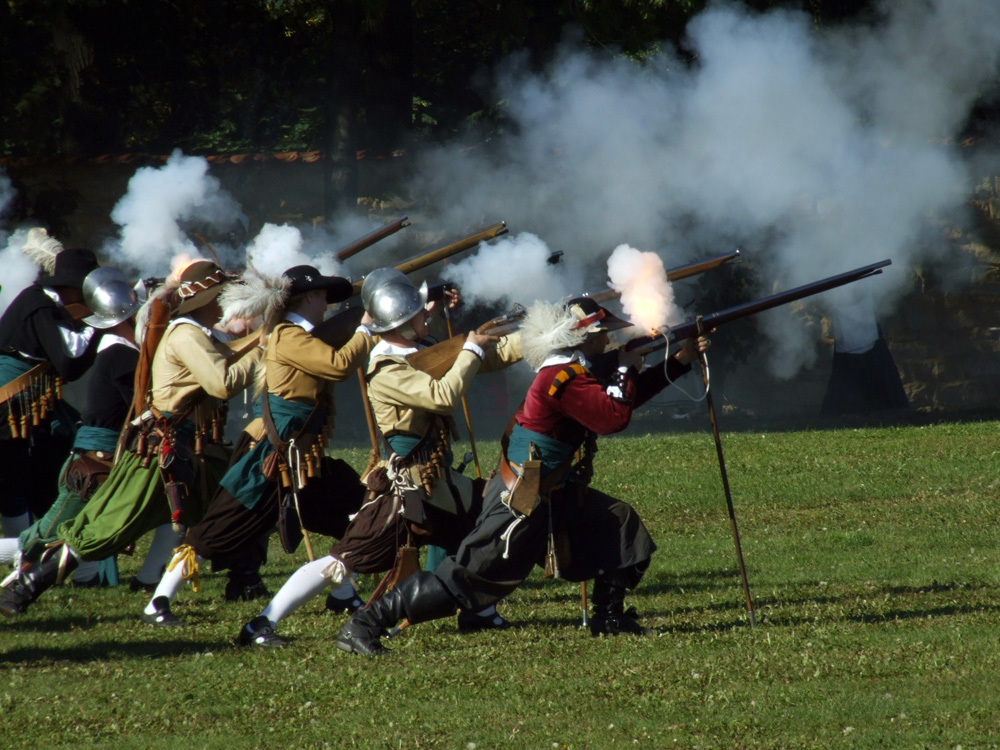 Battle of White Mountain, Czech Republic